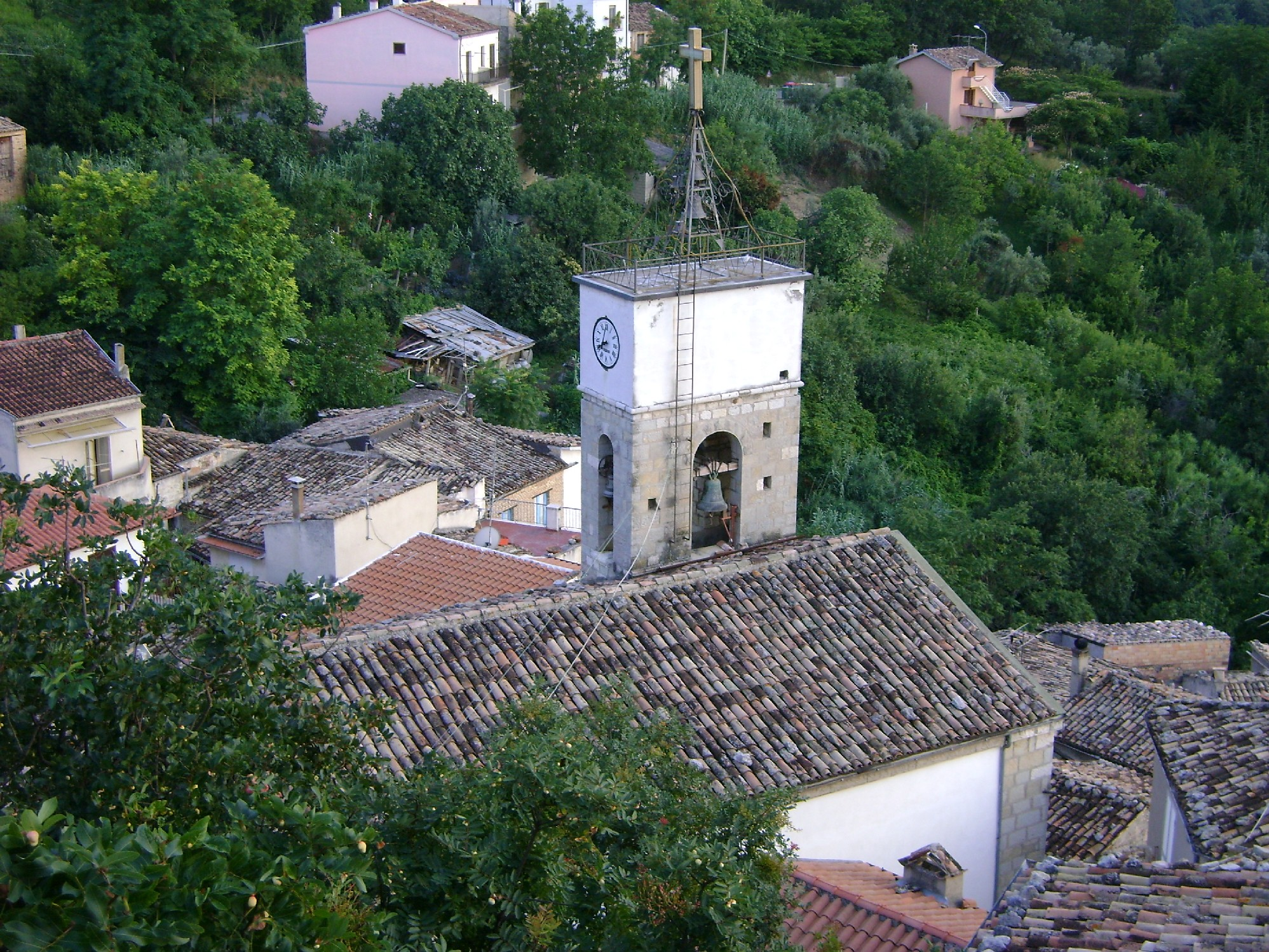 The church of Saint Victoria, province of Chieti, Italy